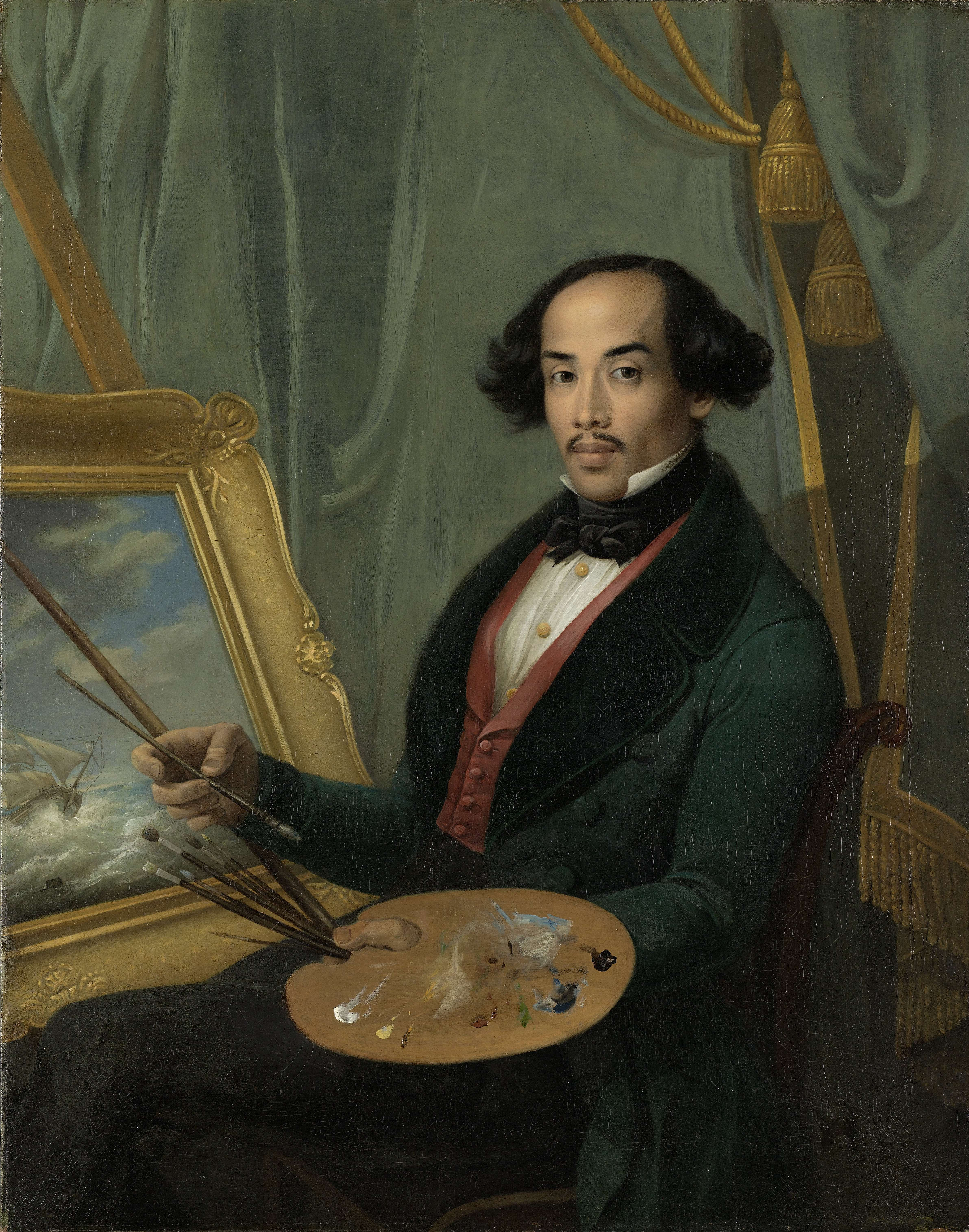 Portrait of the painter Raden Saleh, sitting in front of a marine painting, holding a palette in his left hand and a brush and a maulstick in his right.